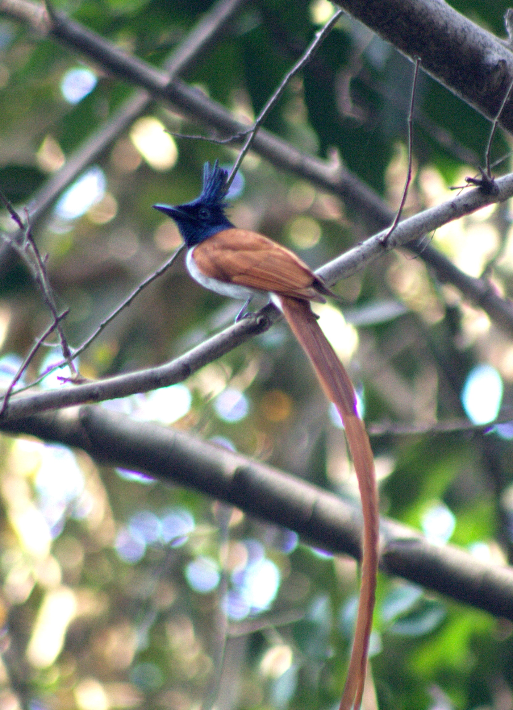 Asian Paradise Flycatcher Terpsiphone paradisi Male Thane Maharashtra